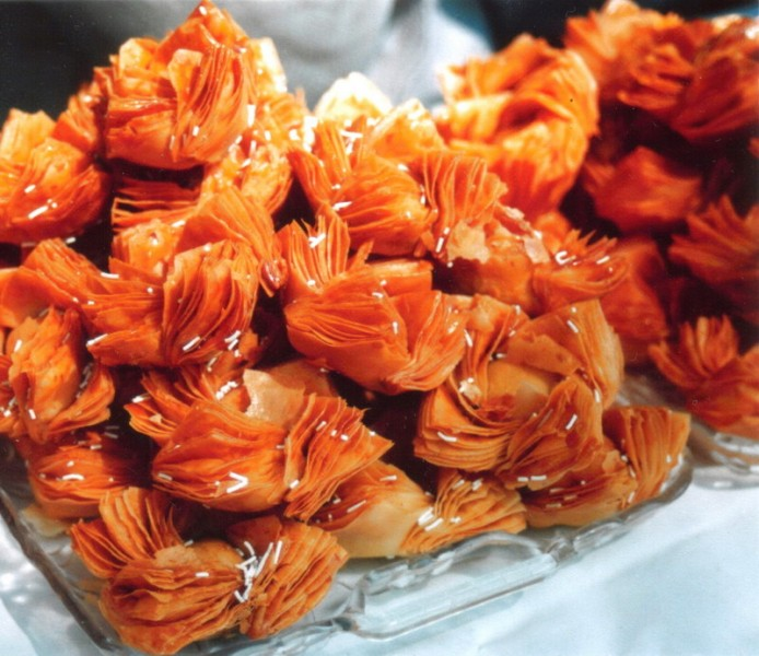 Typical argentine pastelitos.